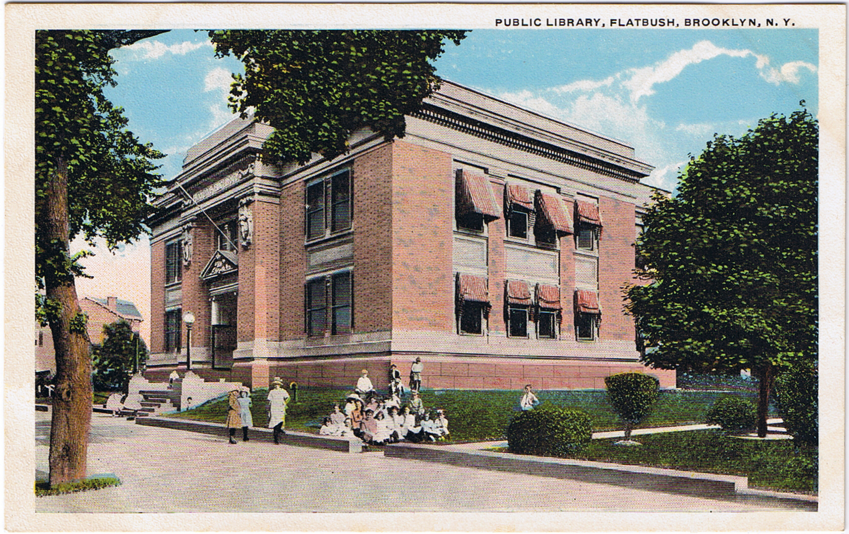 Matte color postcard of the Public Library, Flatbush, Brooklyn, New York. Copyright 1915 by American Art Publishing Co. #A55196. Back reads "The Public Library in Flatbush, located on Linden Avenue, near Flatbush Avenue, is a branch of the Brooklyn Public Library, which has 25 other branches in various parts of Brooklyn. Open to the public from 9 a.m. to 9 P.M." Building was extensively remodeled in 1934. [1]